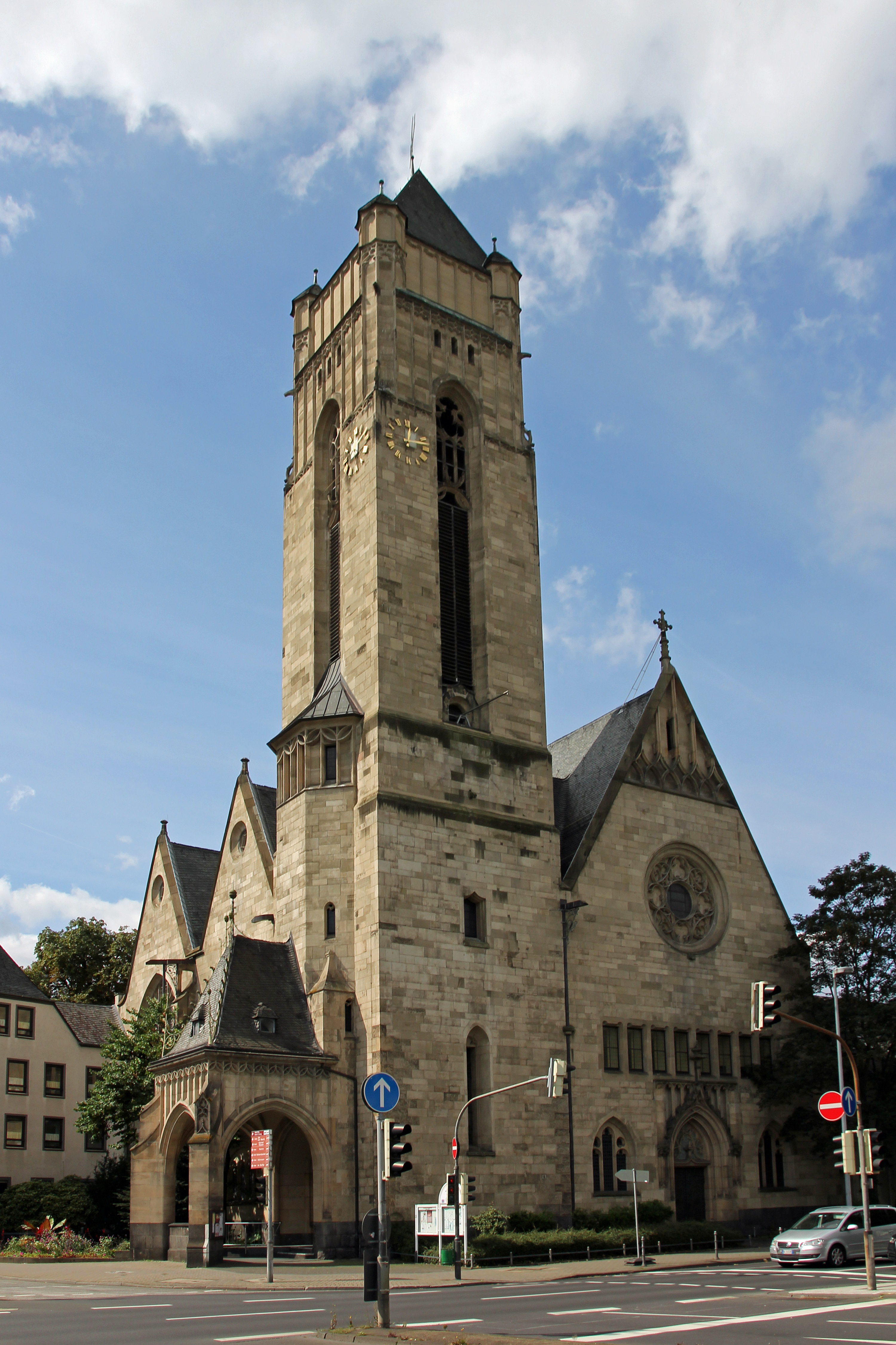 Christ Church in Koblenz